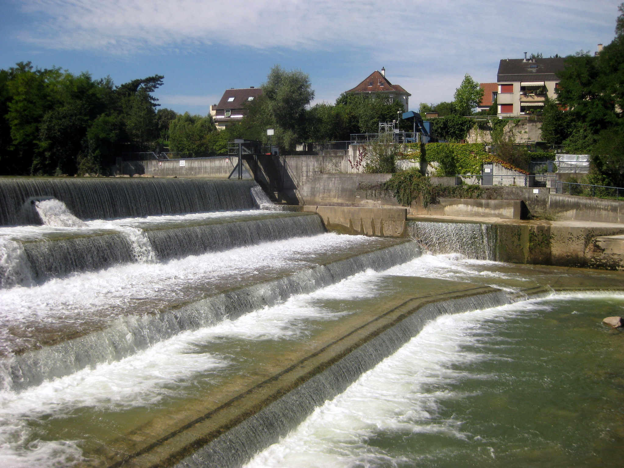 Birs Waterfall, Münchenstein, view from the north towards the small power station